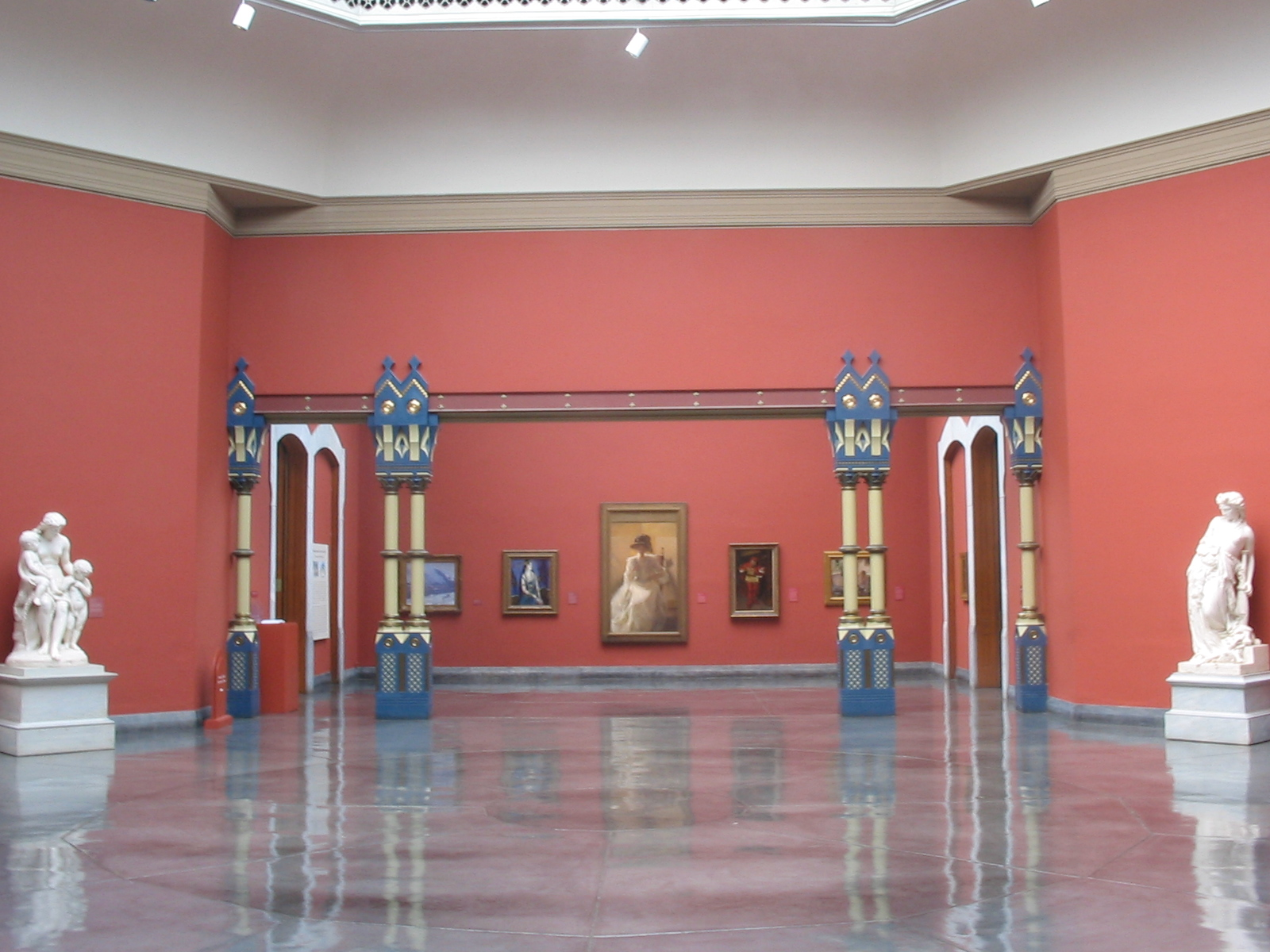 Interior of Pennsylvania Academy of the Fine Arts